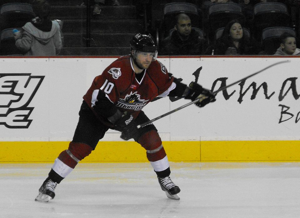 Taken 11/30/2013 @ Copps Coliseum, Hamilton, ON